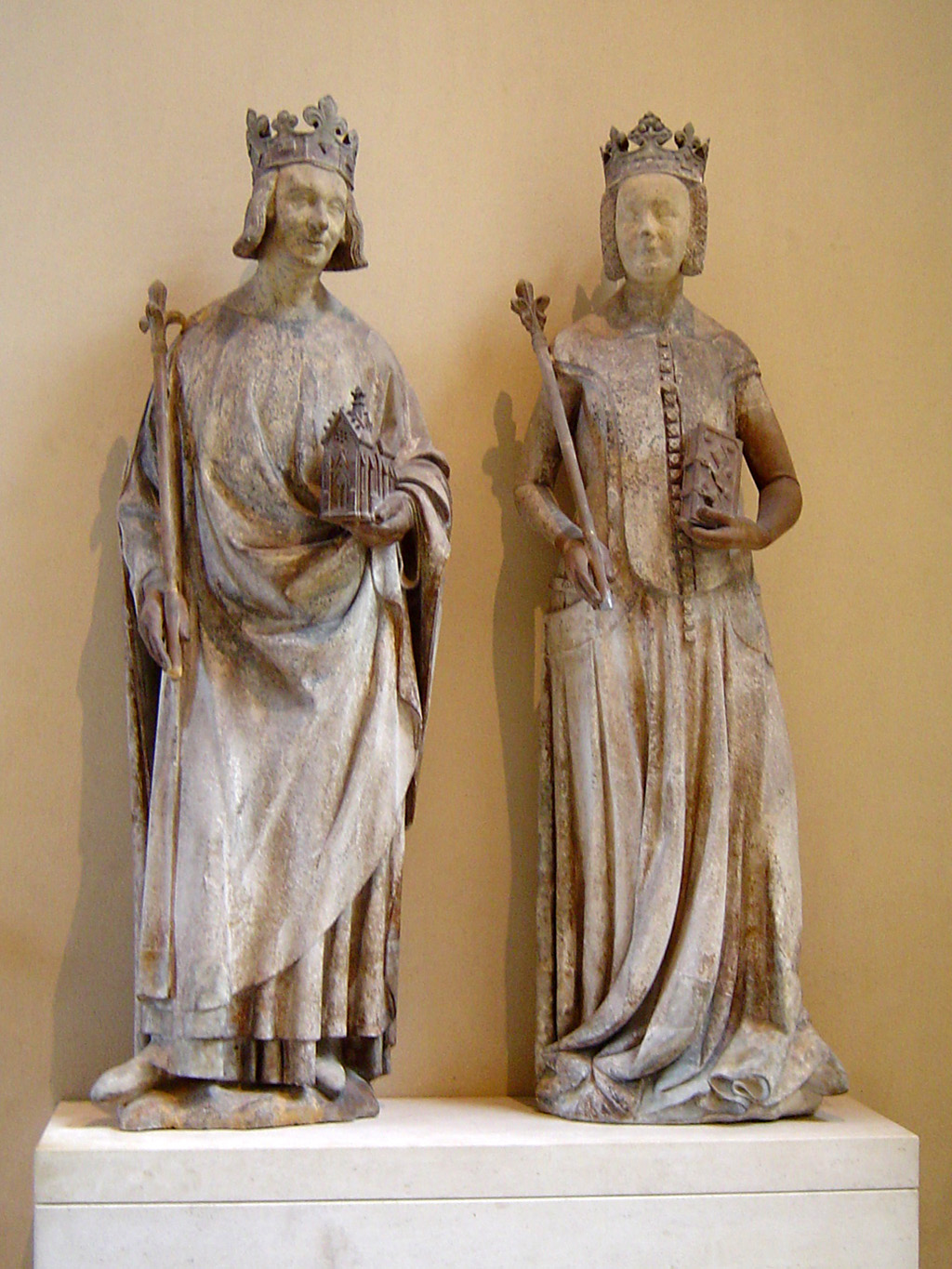 Charles V and Joanna of Bourbon